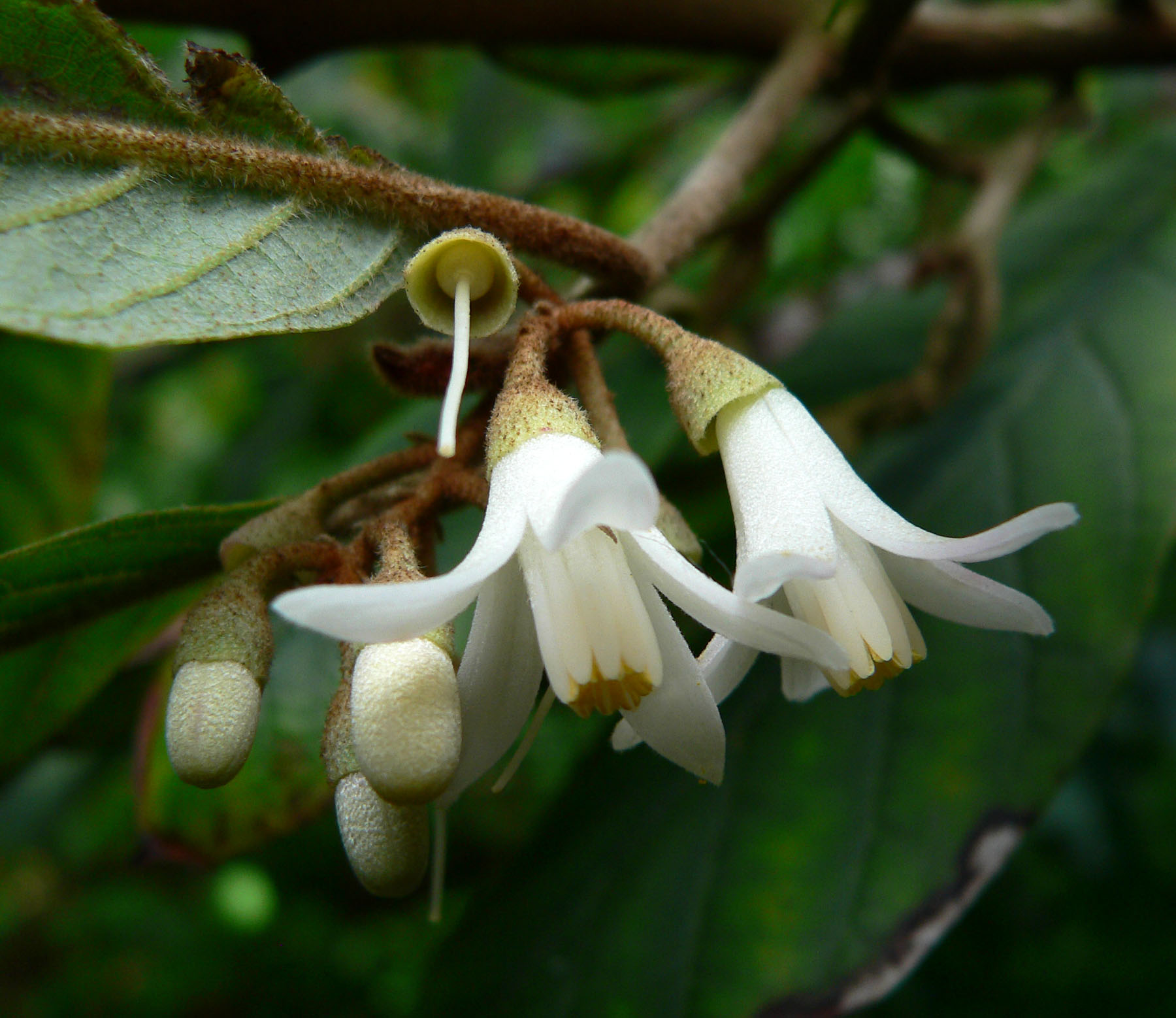 Styrax argenteus at the San Francisco Botanical Garden